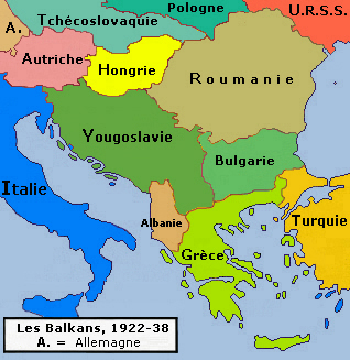 Historic map of the Balkan peninsula, 1922-1938